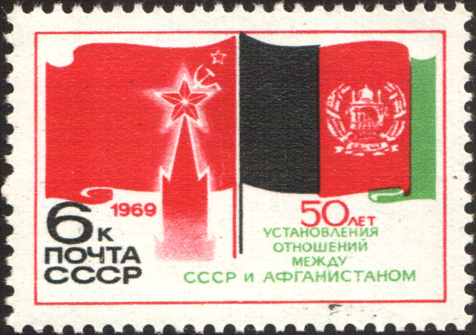 USSR stampː Flags of USSR and Afghanistan. Seriesː 50th Anniversary of USSR-Afghanistan Diplomatic Relations